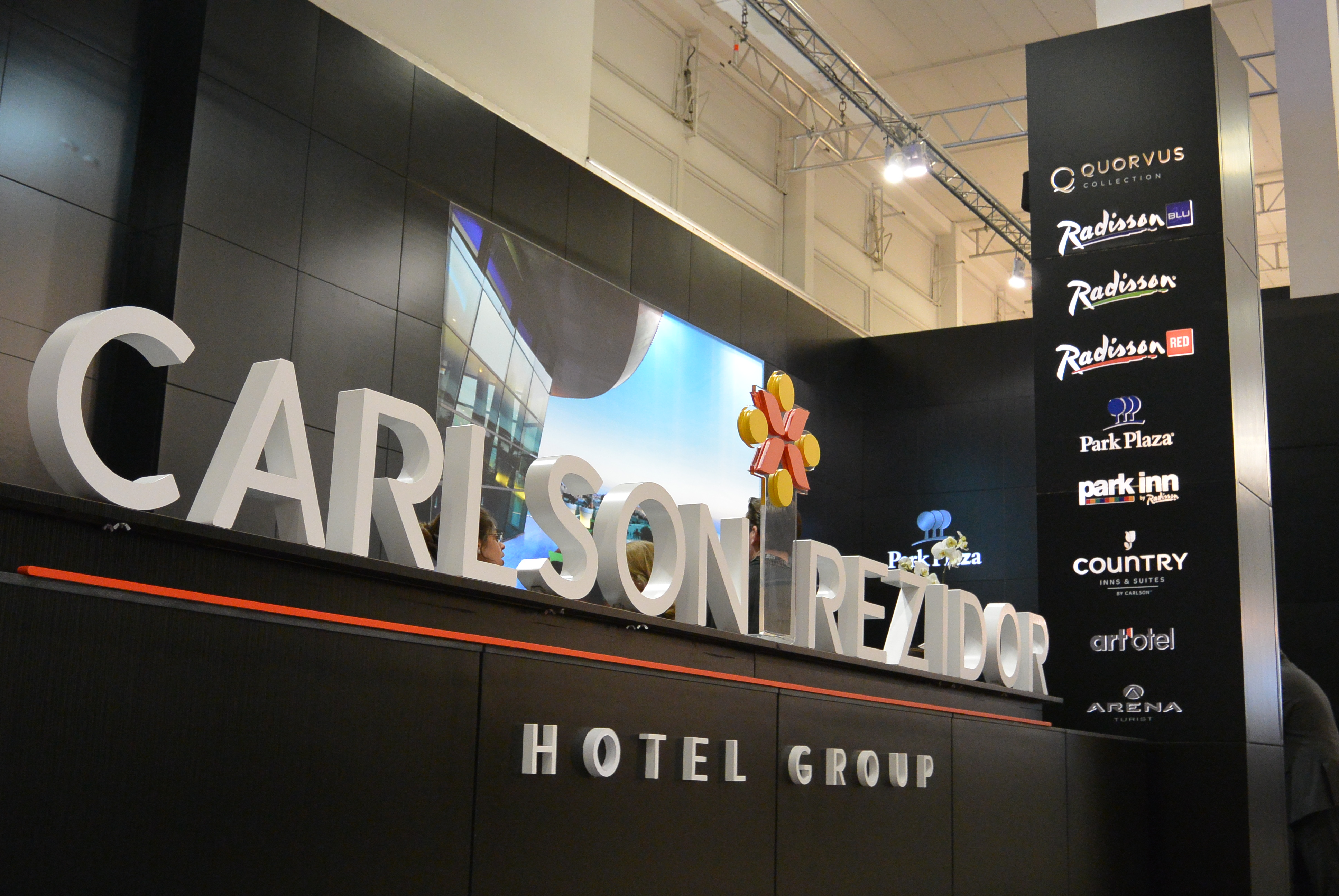 Stoisko Carlson Rezidor Hotel Group podczas ITB Berlin 2014.